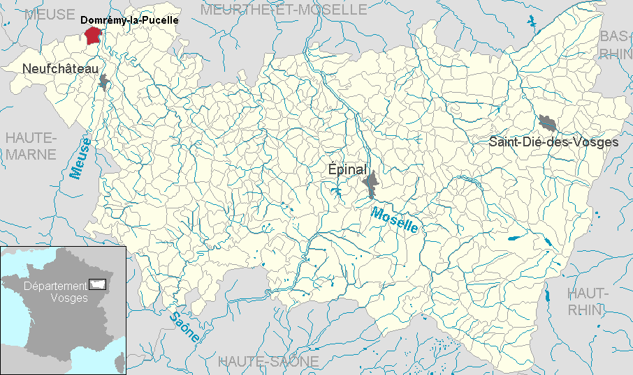 Domrémy-la-Pucelle in the department of Vosges, Lorraine, France